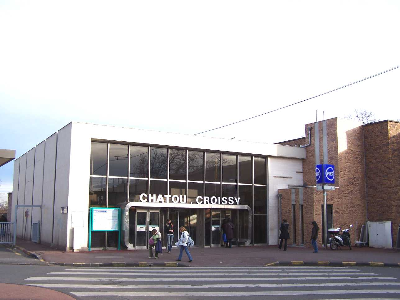 Railway station of Chatou-Croissy in Chatou (Yvelines, France)